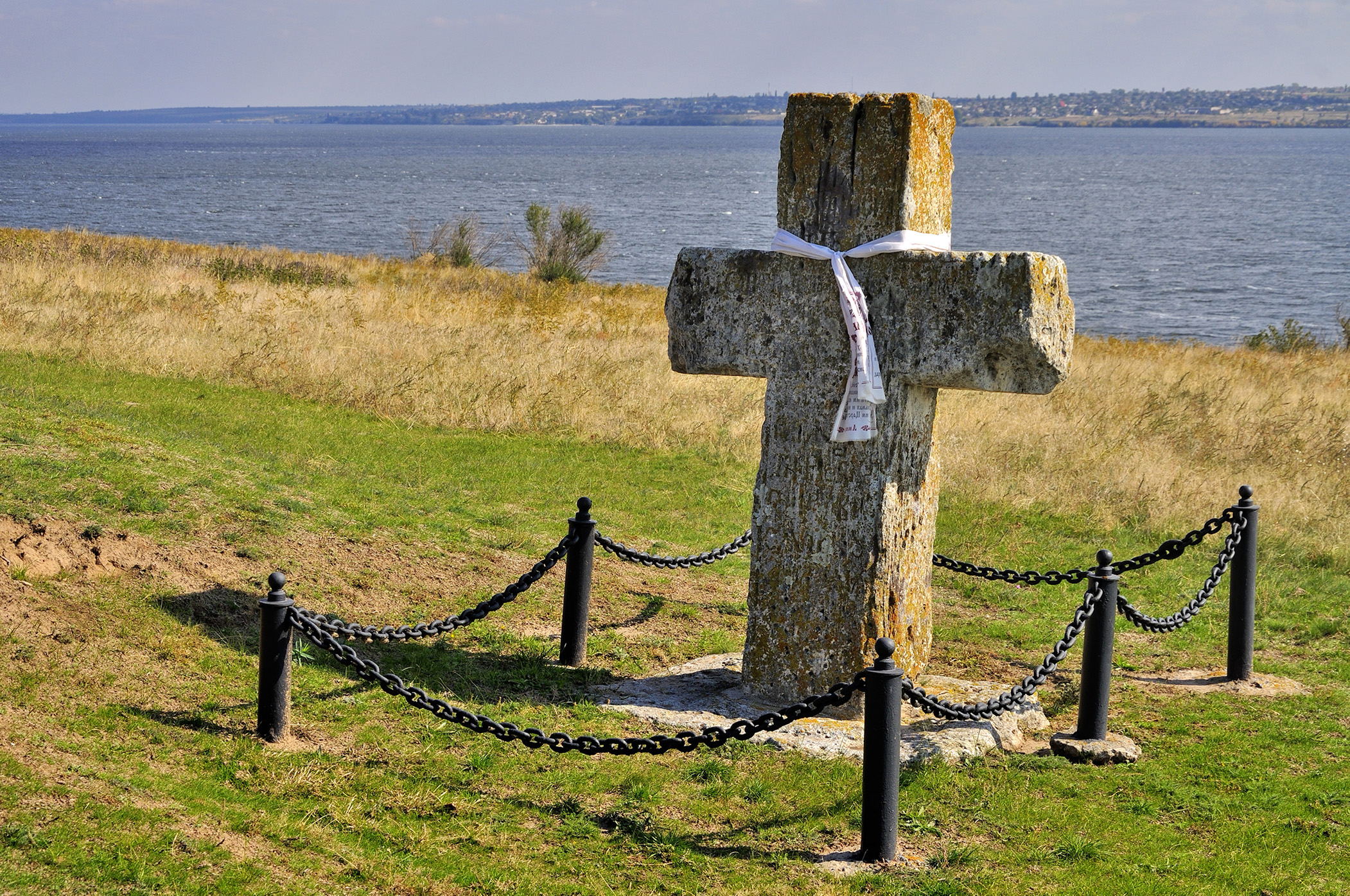 The territory of the former Kamianska Sich.